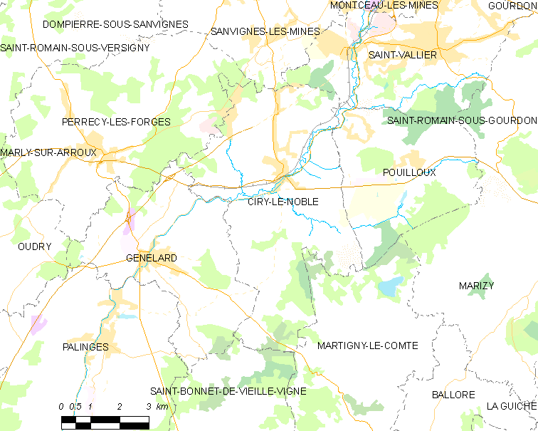 Map of French municipality